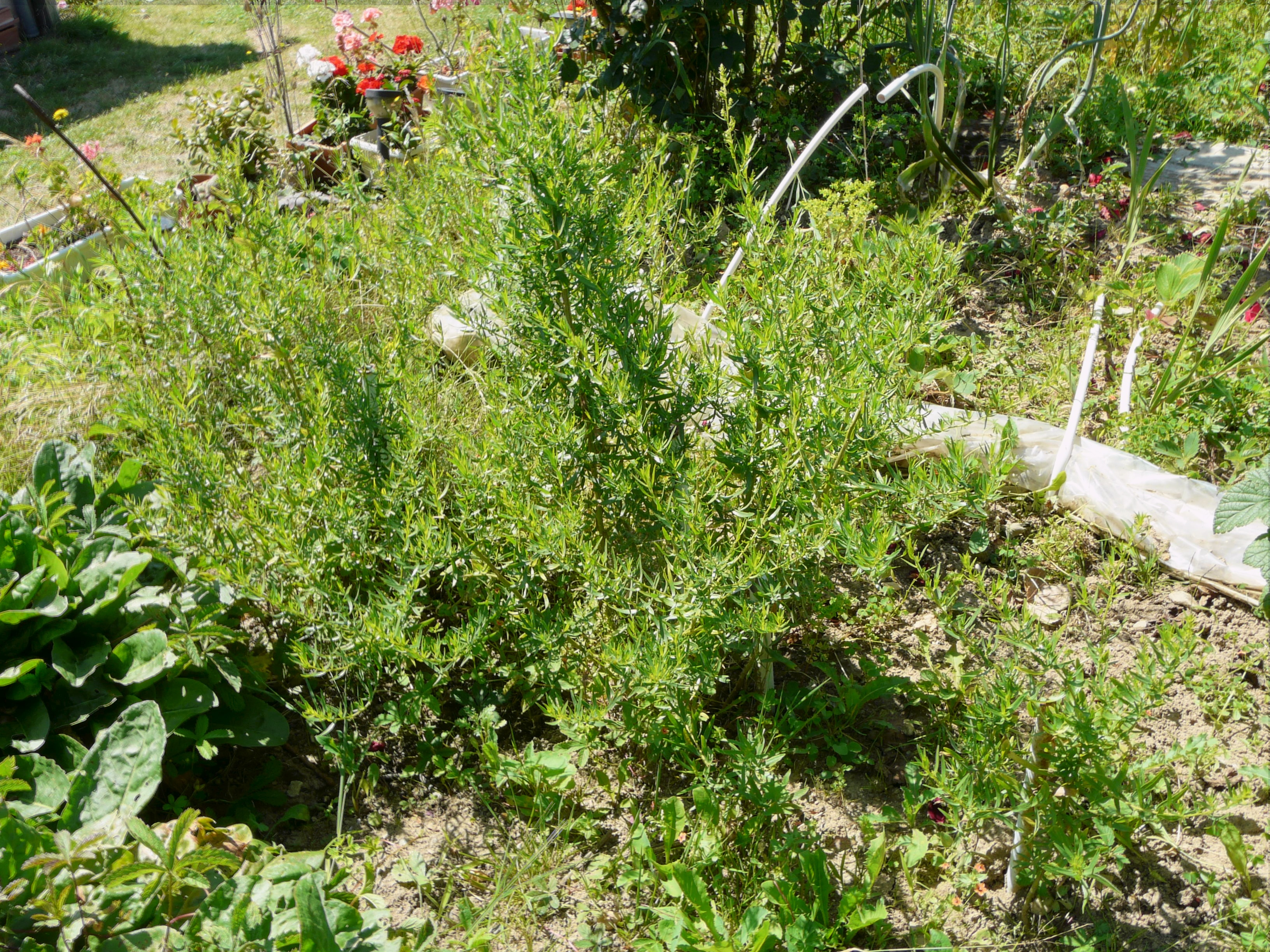 some tarragon cultivated in a garden.